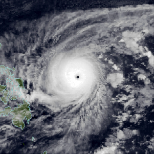 National Climatic Data Center GIBBS archive image of Typhoon Irma.